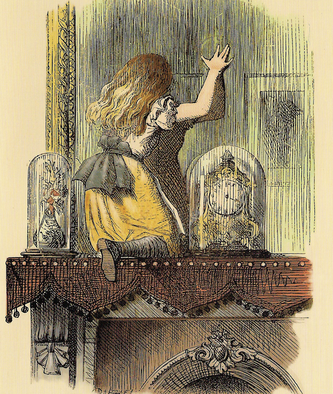 Tenniel sketch from "Alice through the looking glass" 1871